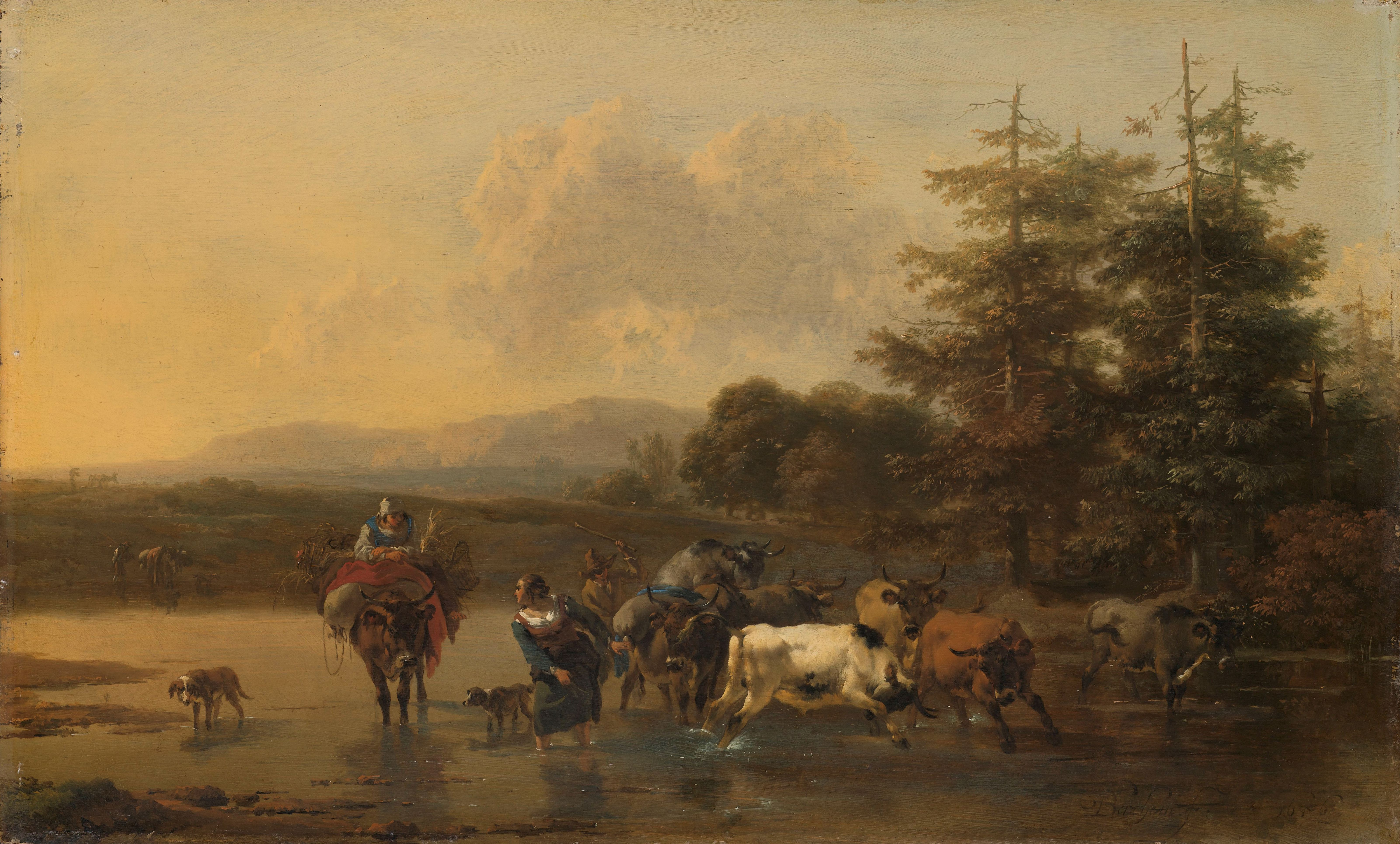 A herder leading his herd of oxen through a ford. To the left a wading woman and a woman riding an ox.